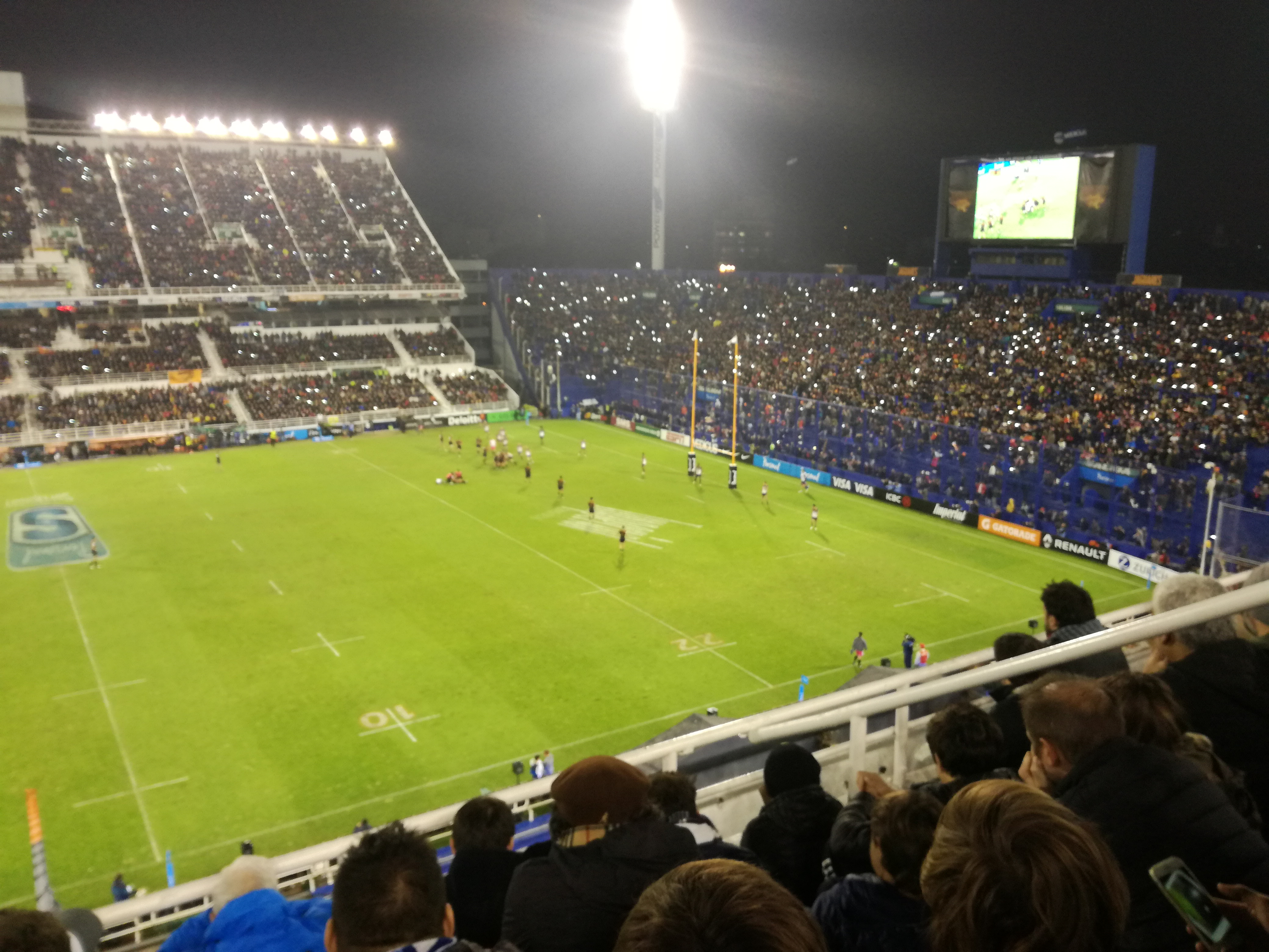 Jaguares vs Brumbies. Semifinal Super Rugby 2019. Stadium José Amalfitani. Buenos Aires.